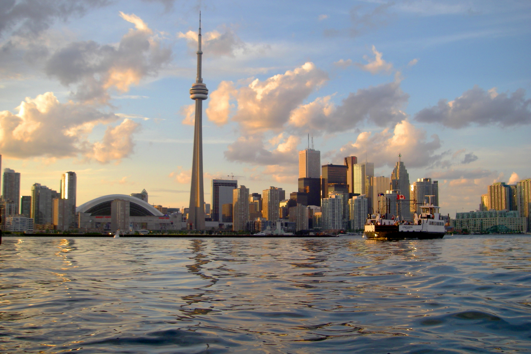 View of Toronto skyline from Toronto Harbour. Toronto Island ferry in foreground. Toronto, Canada.